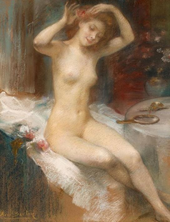 Near the Toilet